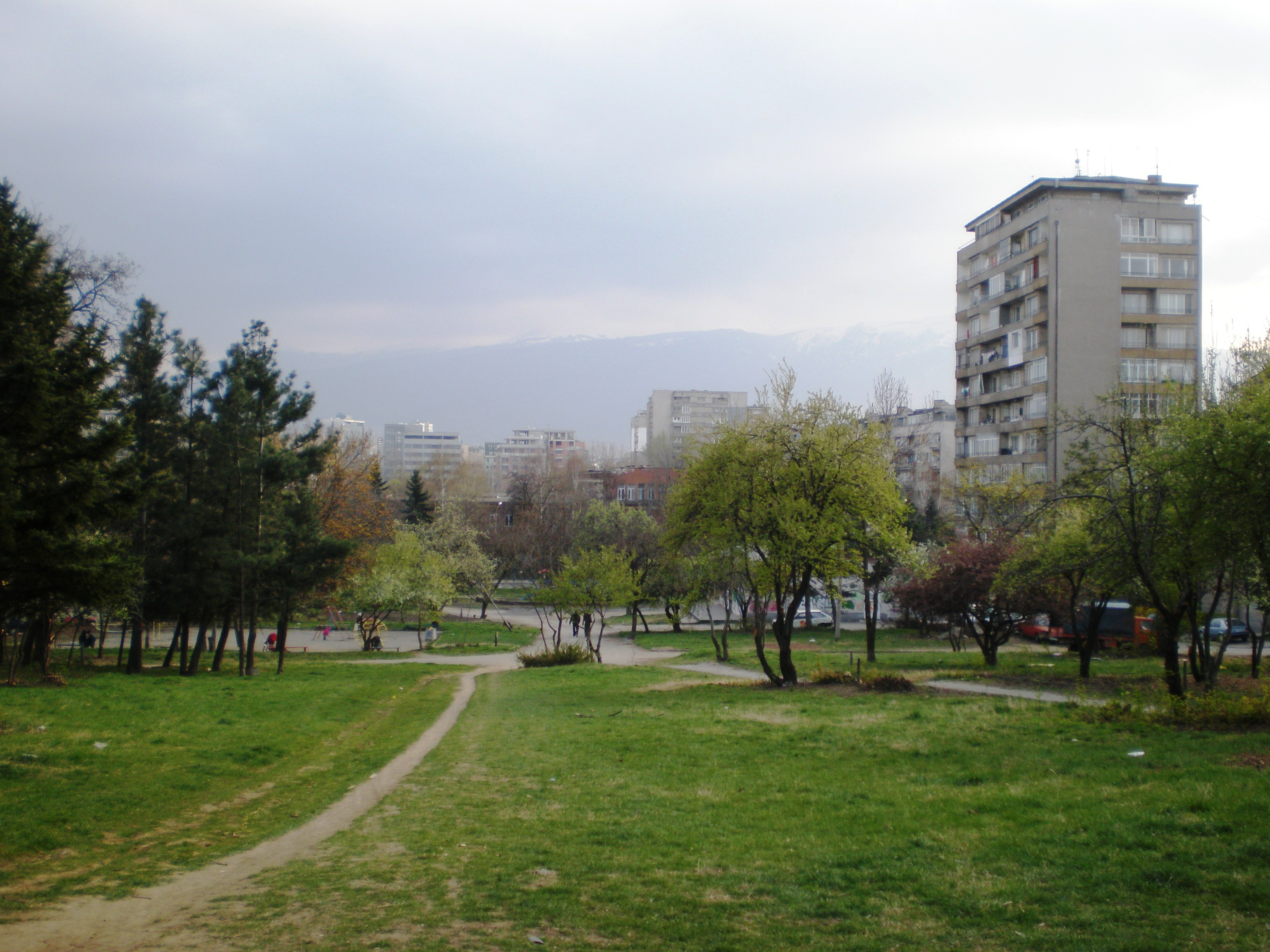 Geo Milev district, Sofia, Bulgaria